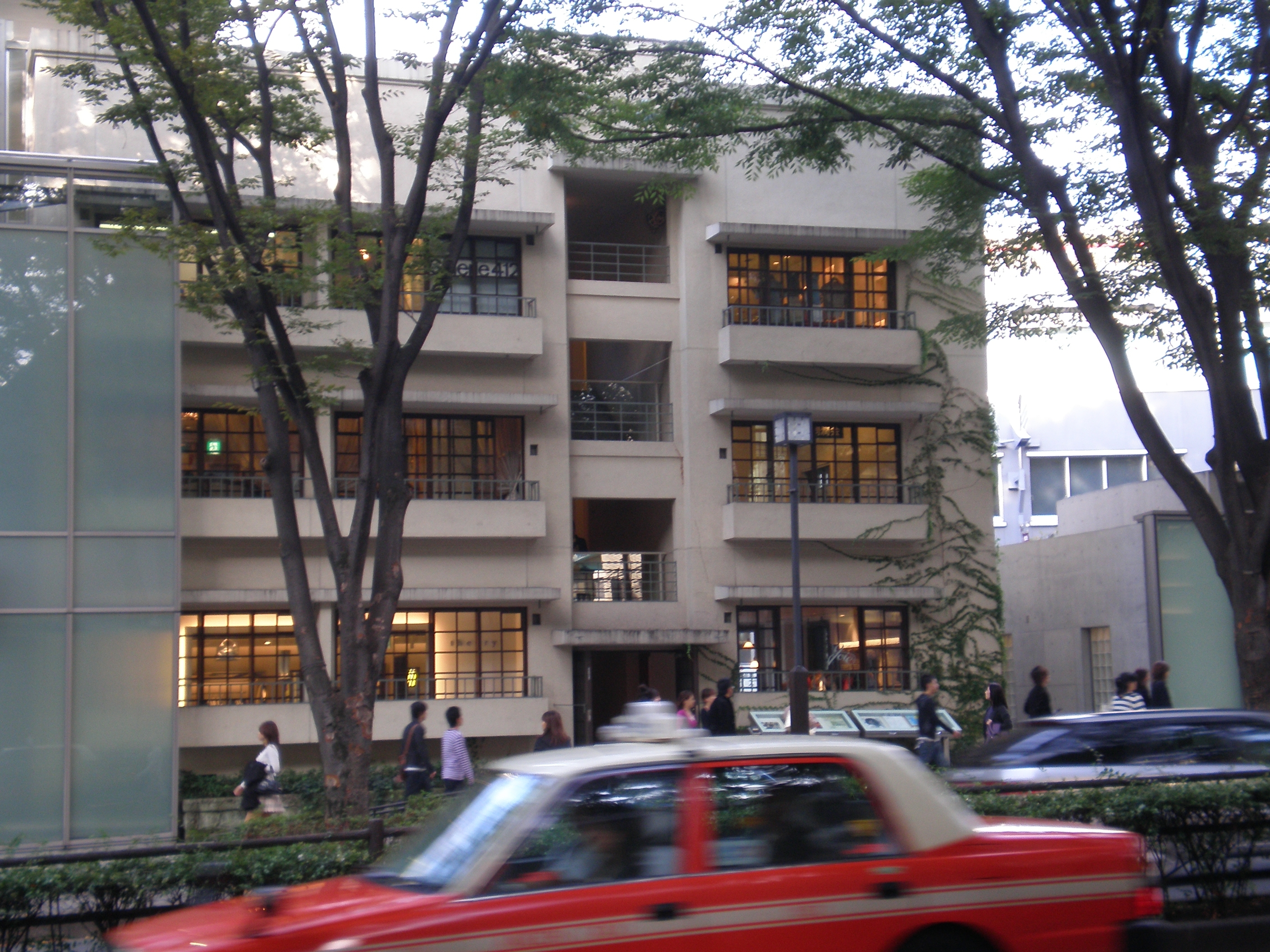 Omotesando Hills - The Replica of Dojunkai Aoyama Apartment Building